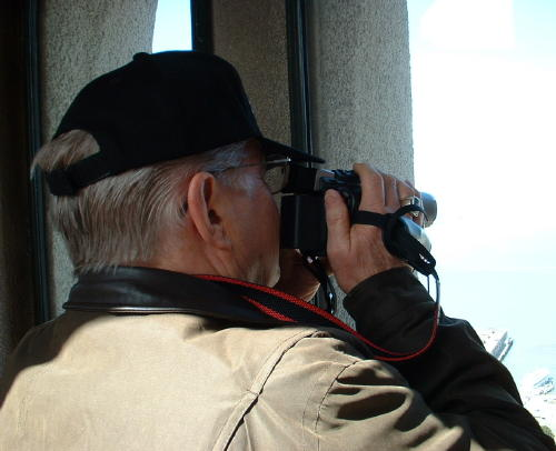 Man with camcorder